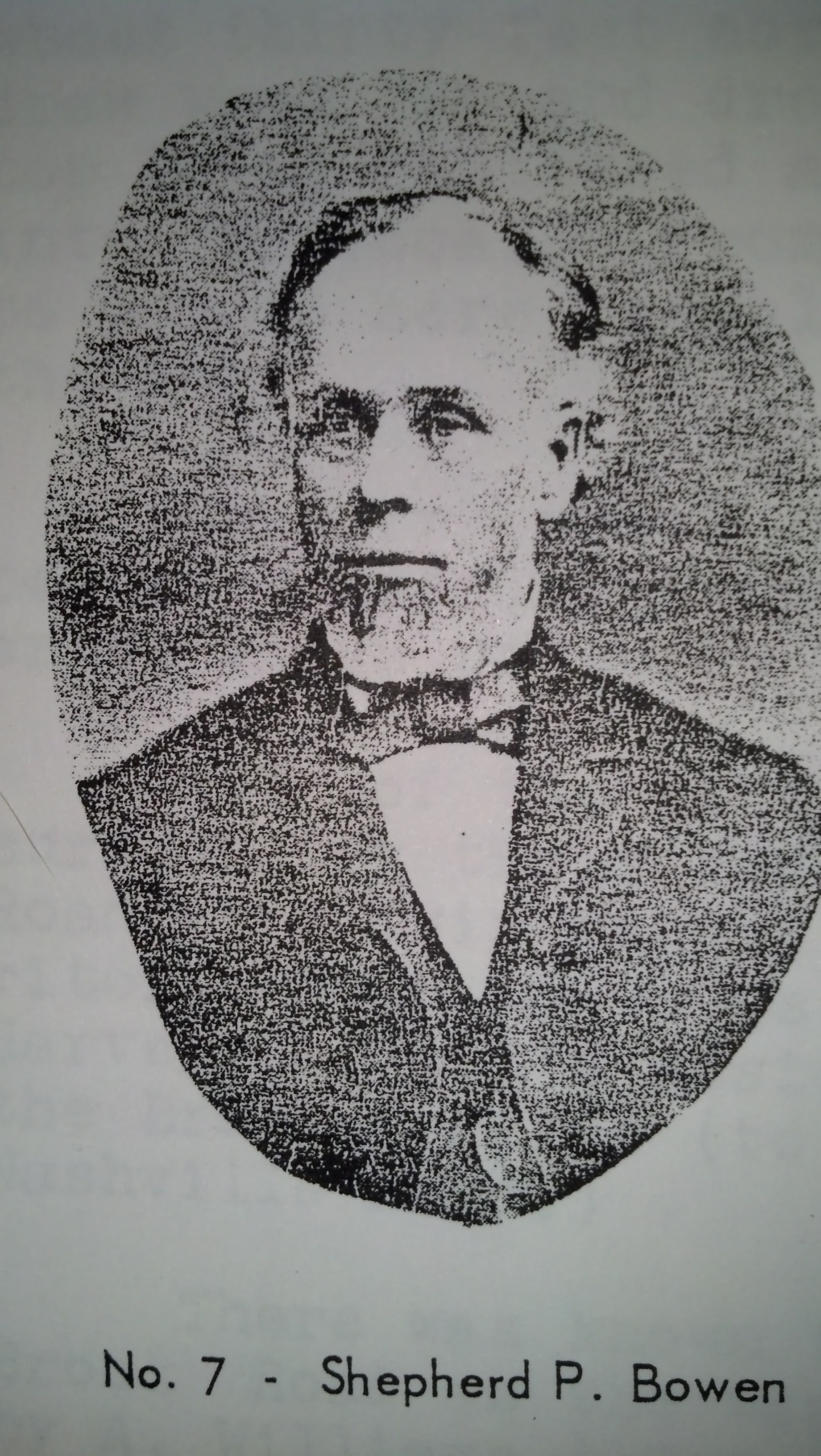 This is a photo of Shepard P. Bowen of New York. The photo can be found also in "Saranac Valley" by Sarah Baker